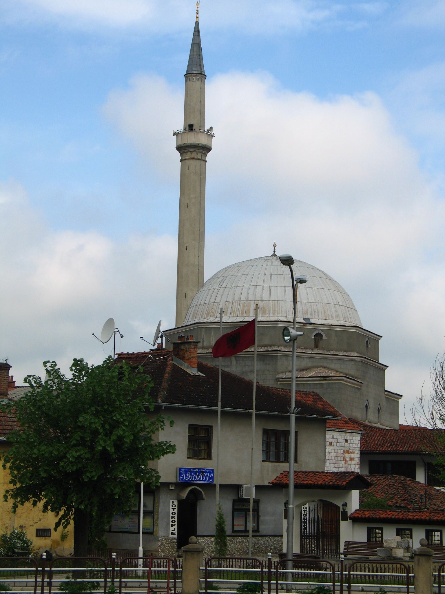 Town of Prizren in southern Kosovo